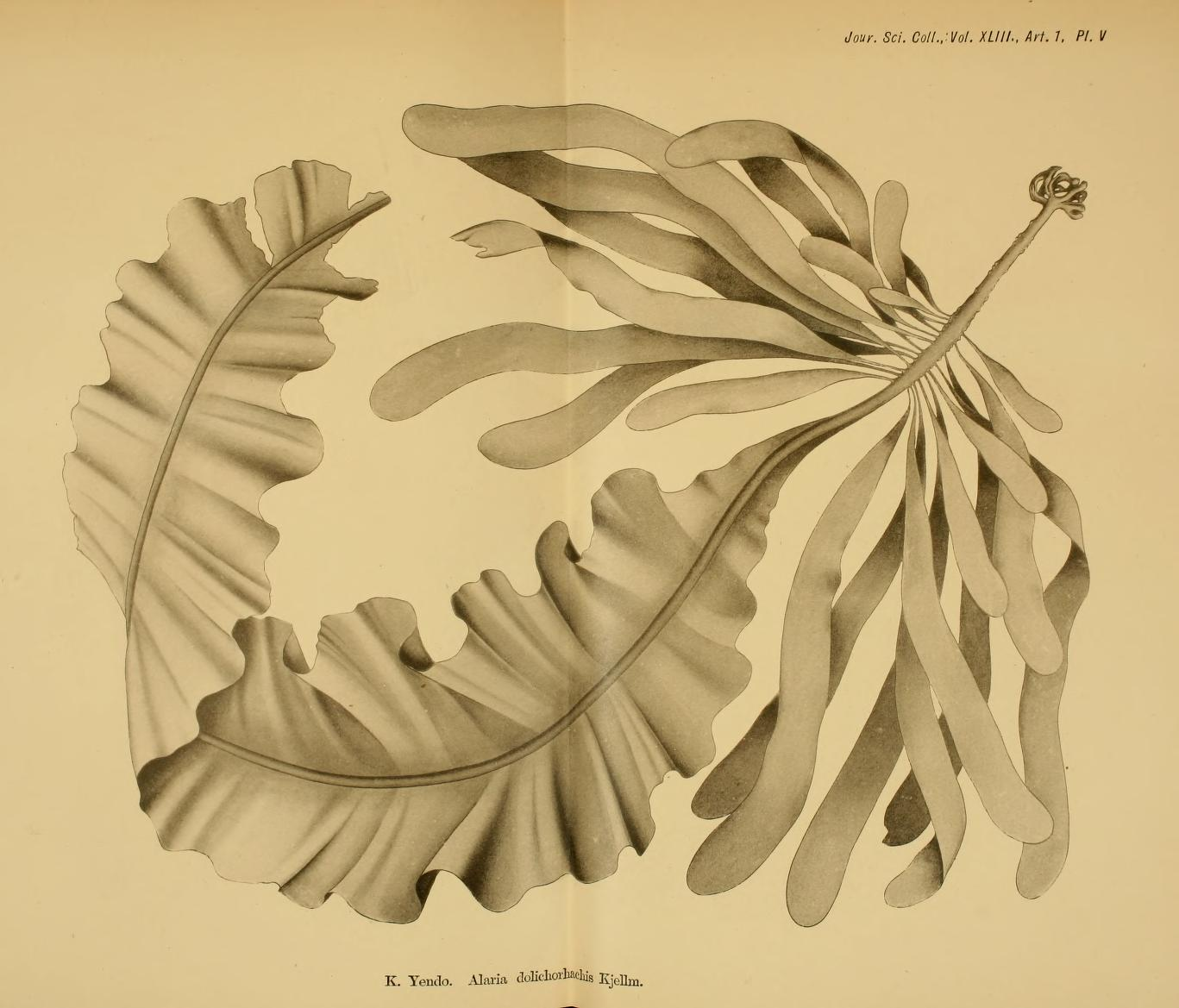 Alaria dolichorhachis Kjellman = Alaria esculenta (Linnaeus) Greville, from: Yendo, K. 1919. A monograph of the genus Alaria. Journal of the College of Science, Tokyo Imperial University 43(1): 1–145, plate V.